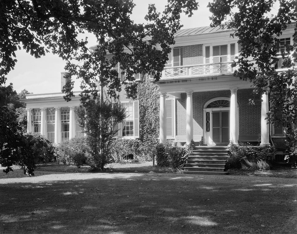 View of the facade of 'Castle Hill,' Charlottesville vicinity, Albemarle County, Virginia, by the American photographer and photojournalist Frances Benjamin Johnston. 8 x 10 safety film negative. Circa 1926. Photograph forms part of the Johnston archives at the Library of Congress, to which the photographer donated her work in perpetuity, hence there are no restrictions on publication, as per the Library's website. Image courtesy of the Prints and Photographs Division, Library of Congress, Washington, D.C.